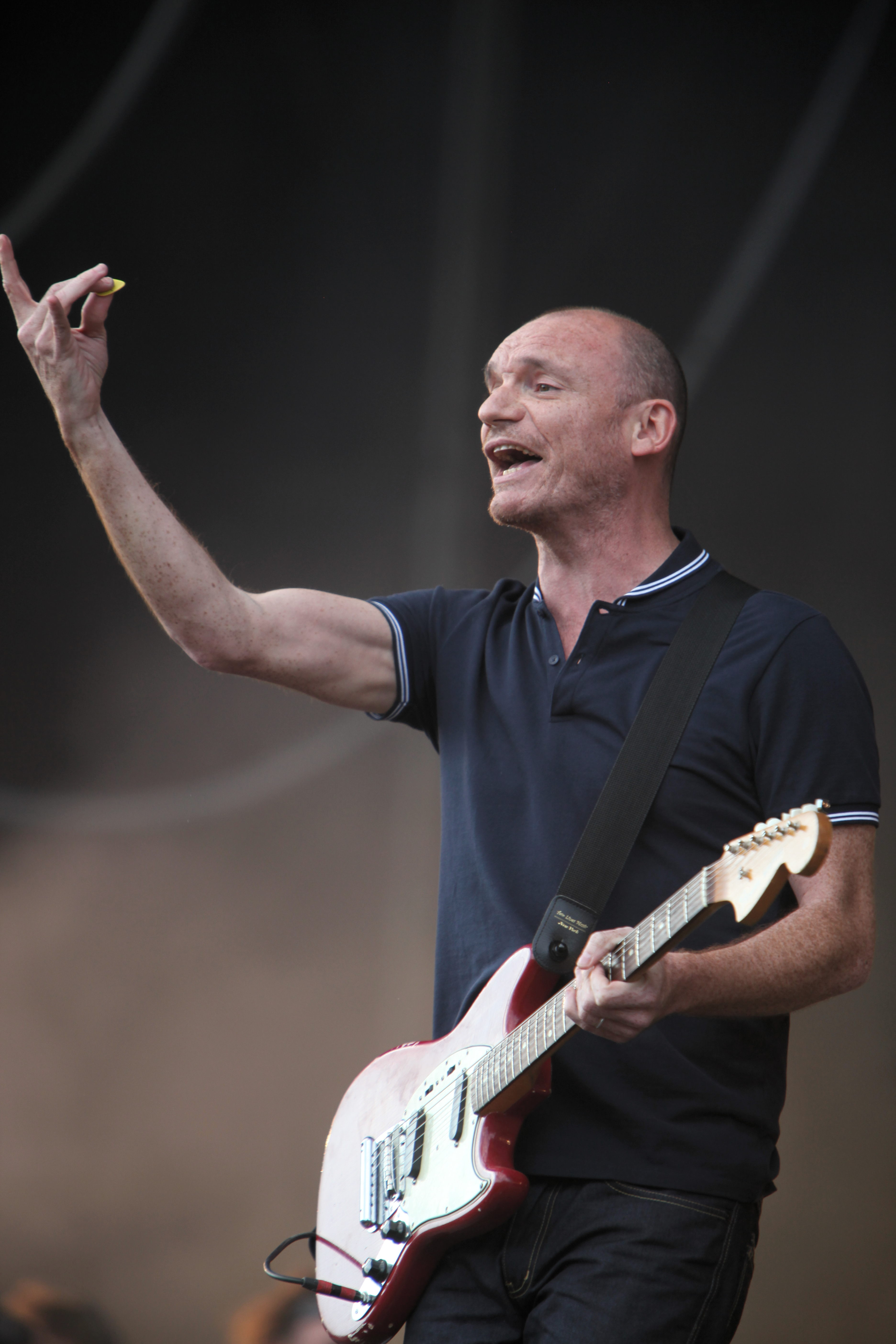 Gaëtan Roussel at the Eurockéennes de Belfort 2011 The making of this document was supported by Wikimedia CH. (Submit your project!) For all the files concerned, please see the category Supported by Wikimedia CH.